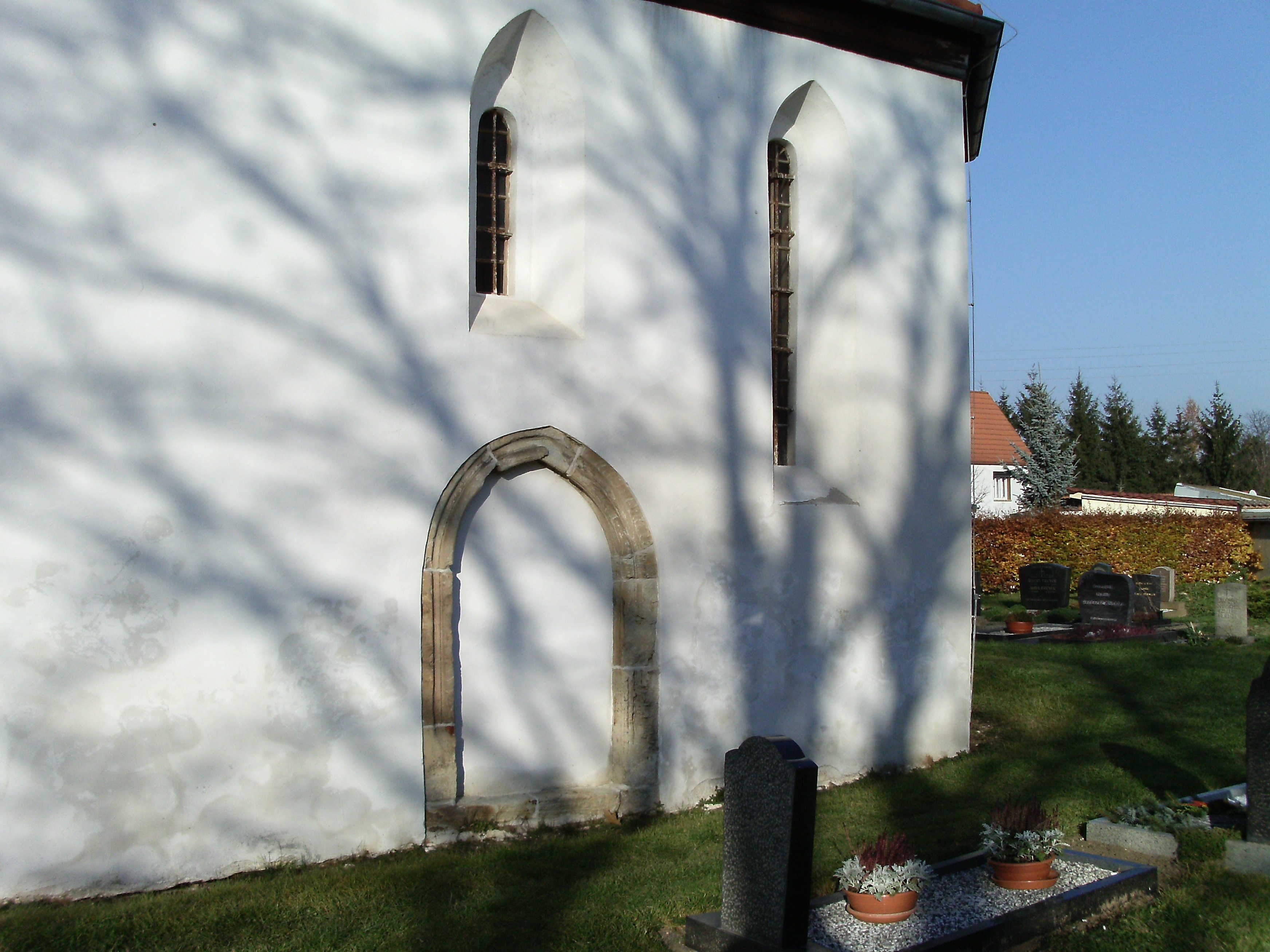 Walled-up portal at Hohburg church (Leuna, district of Saalekreis, Saxony)